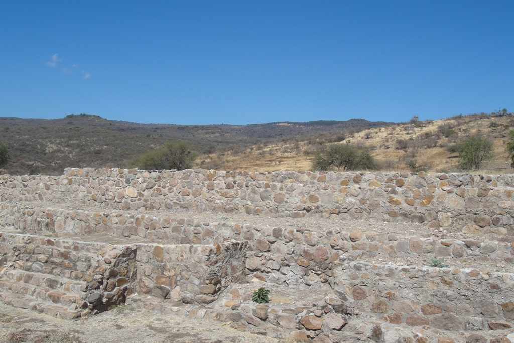 Template:Huandacareo, sunken patio, north side